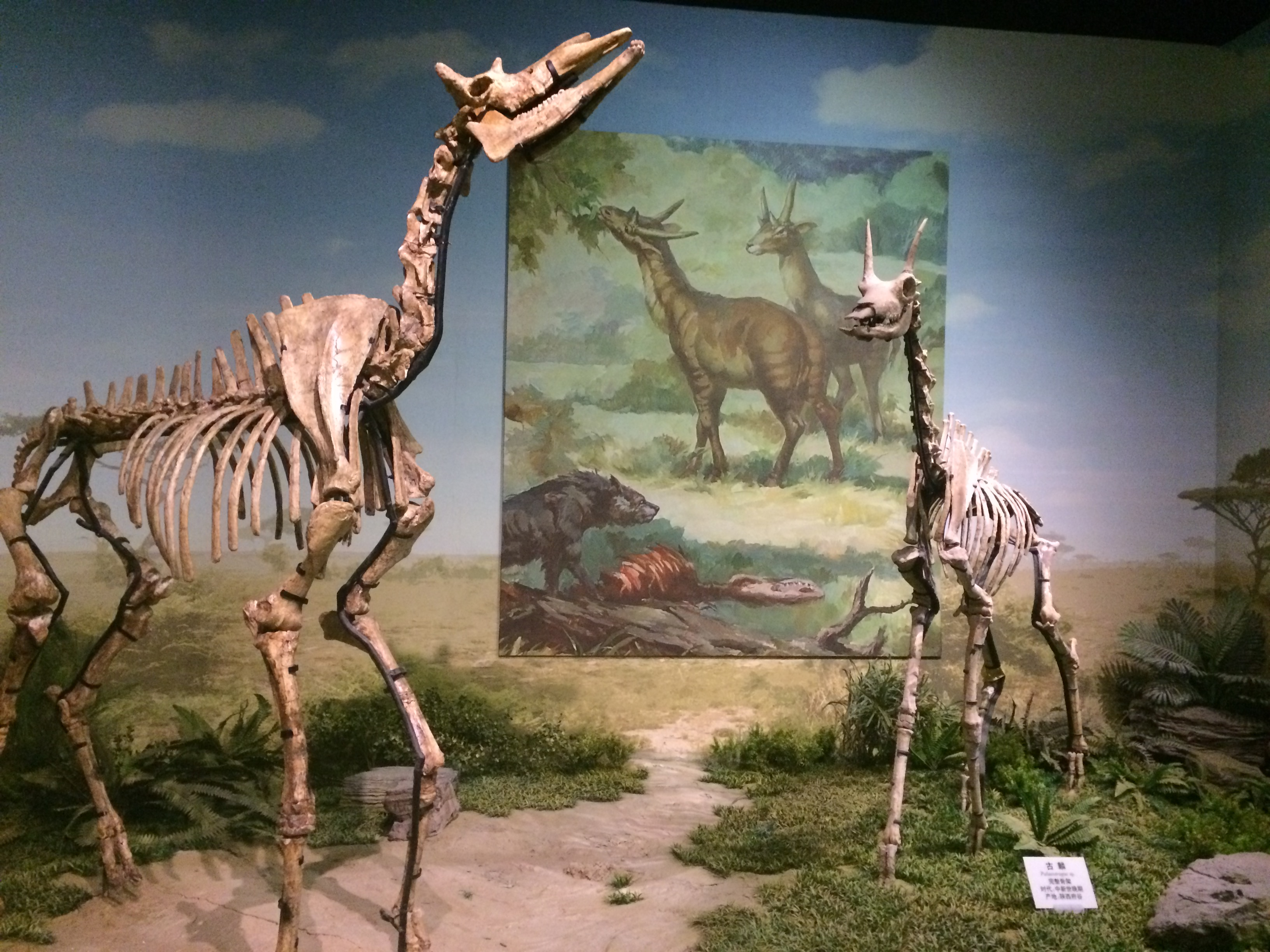 Prehistoric Giraffids at the Tianjin Natural History Museum